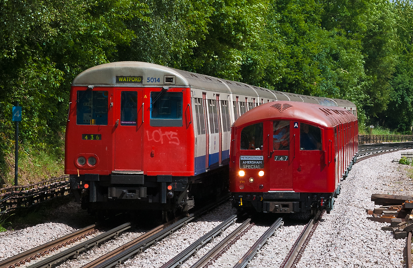 A London Underground A60 Stock train passes the preserved heritage 1938 Stock train in Croxley (Hertfordshire). The size/gauge difference between the sub-surface A Stock and the "tube" gauge 1938 Stock is clearly visible.